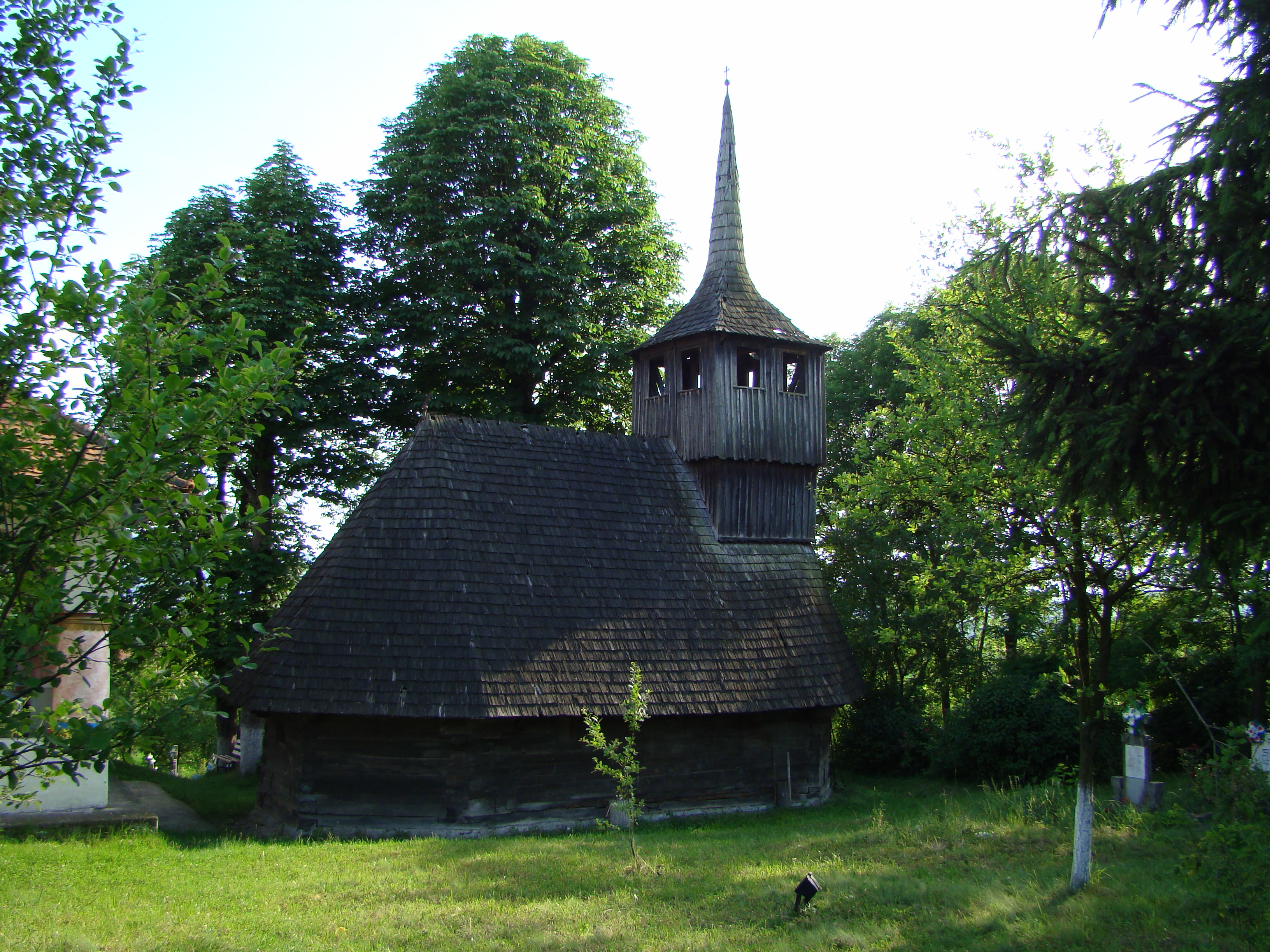 wooden Orthodox church in Târnăvița village, Hunedoara County, RomaniaRomână: Biserica de lemn din Târnăvița